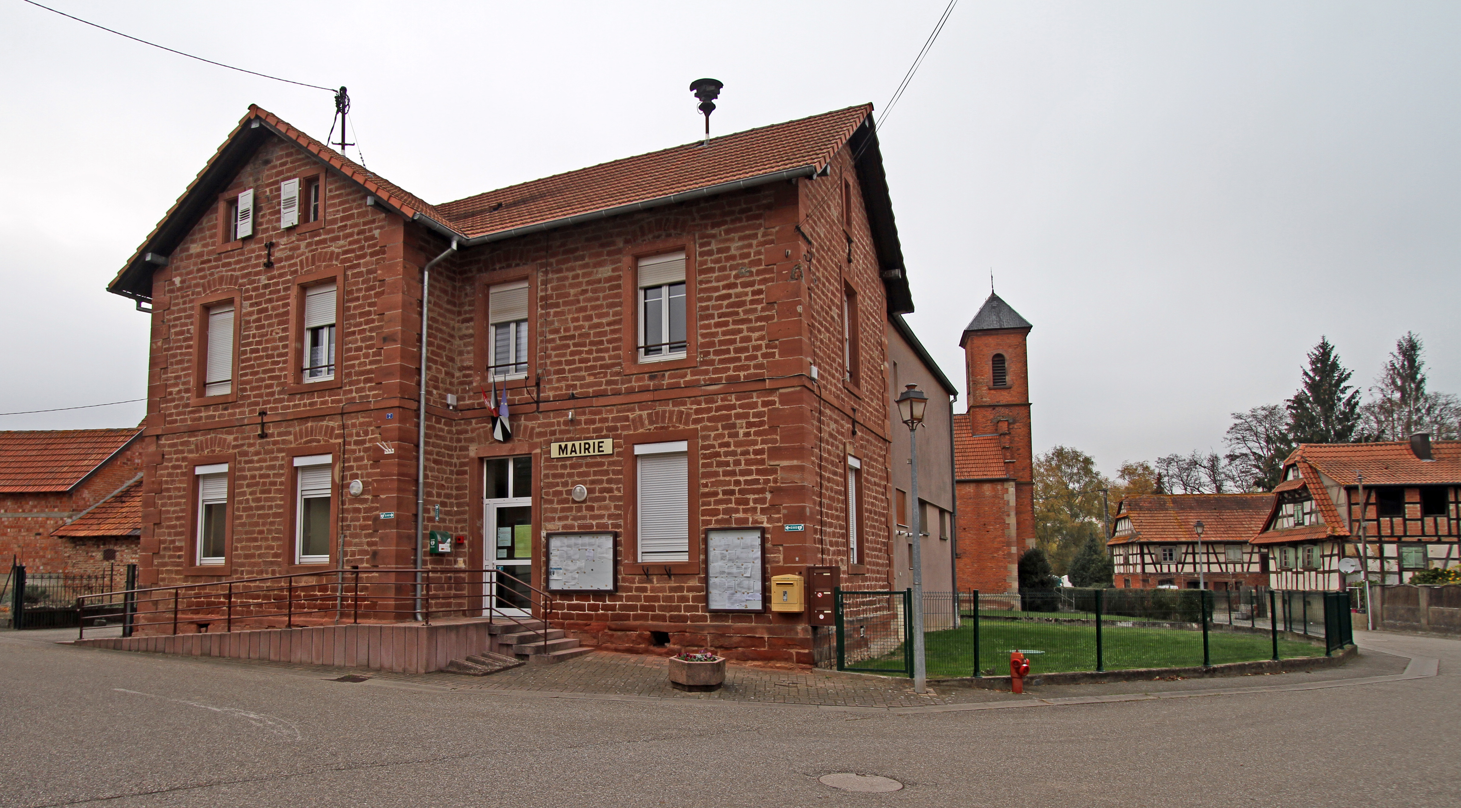 Town hall of Ingolsheim.